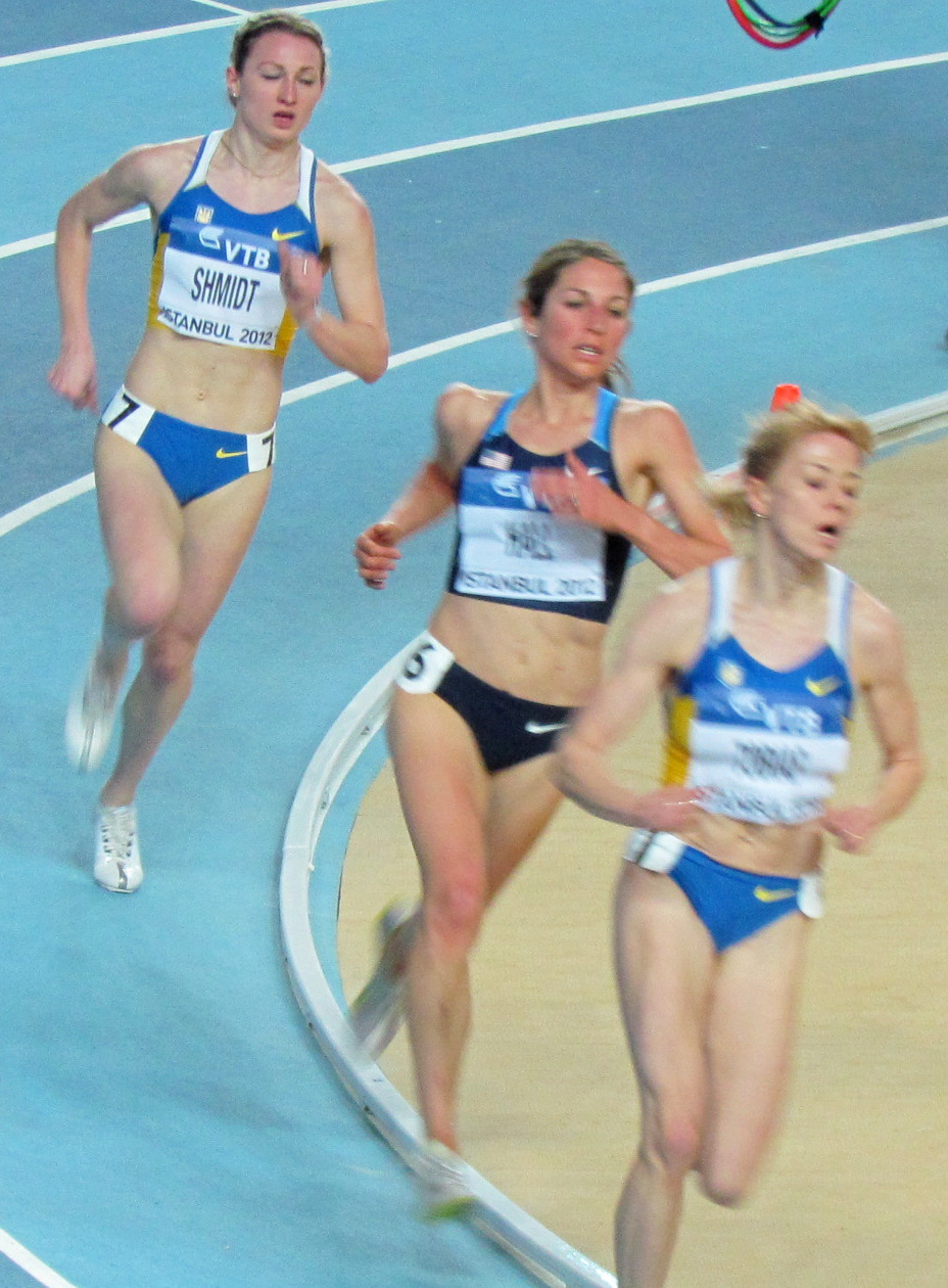 The 2012 IAAF World Indoor Championships in Athletics was the 14th edition of the global-level indoor track and field competition and was held between March 9–11, 2012 at the Ataköy Athletics Arena in Istanbul, Turkey. Svitlana Shmidt, Sara Hall, Nataliya Tobias